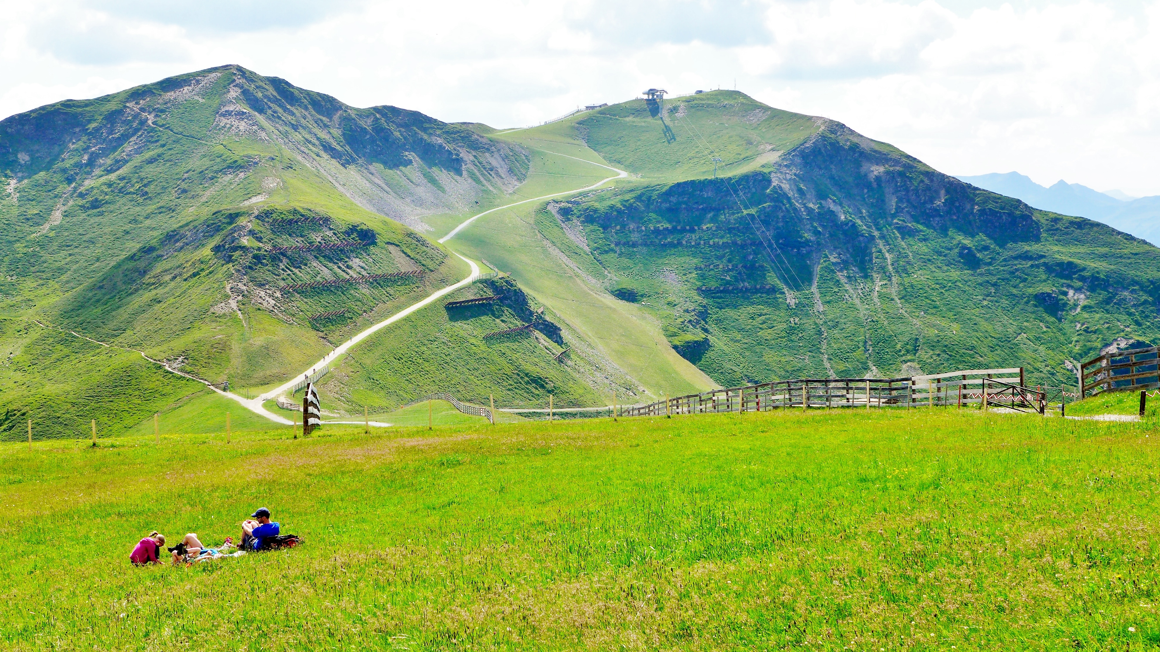 View looking towards the Mittelgipfel (left) and Schattberg West (right), two of the three peaks of the Schattberg, a mountain overlooking Saalbach-Hinterglemm, Salzburg (state), Austria. The photograph was taken from Schattberg Ost, the other peak.